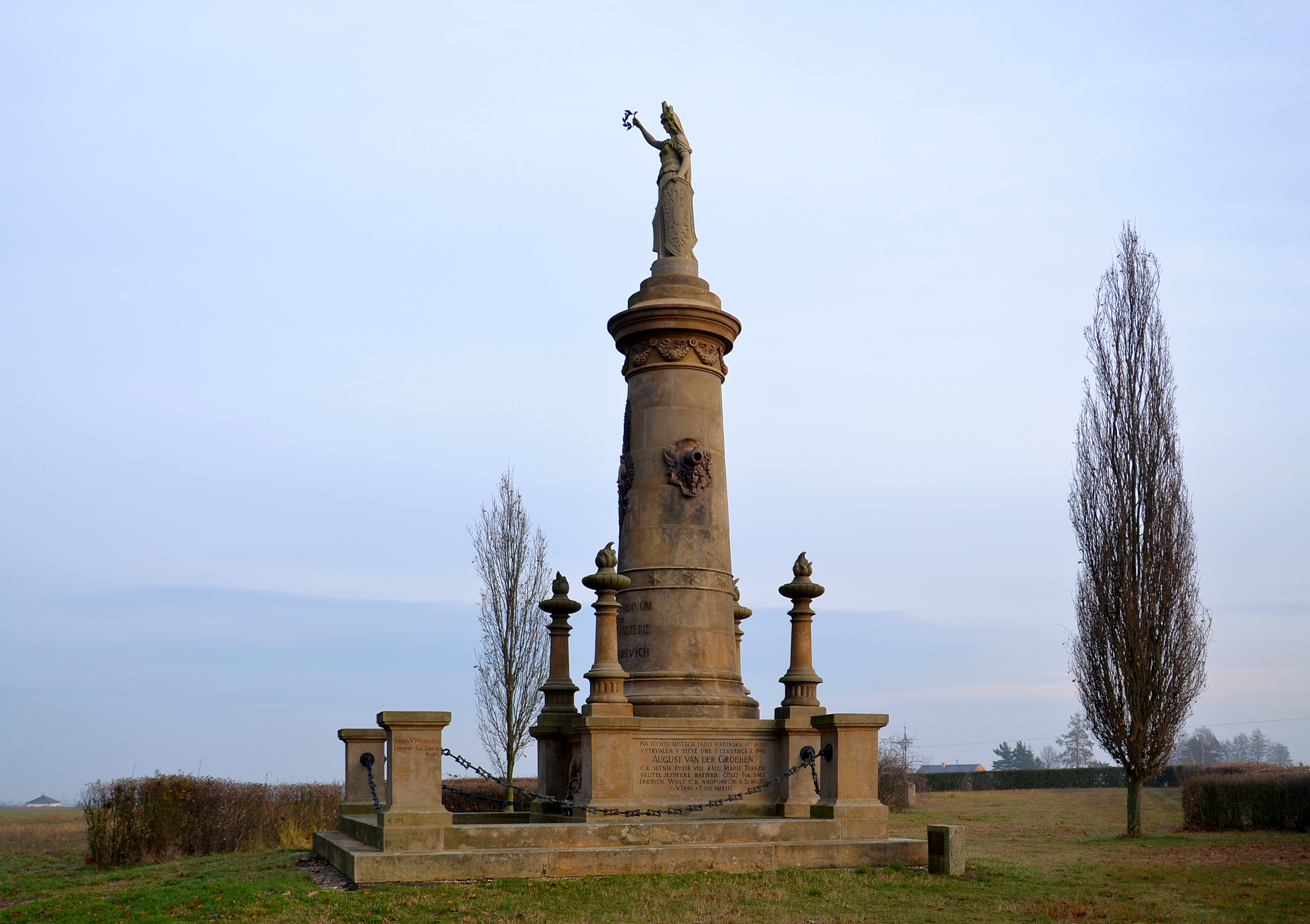 Chlum, Czech Republic - Battery of the Death